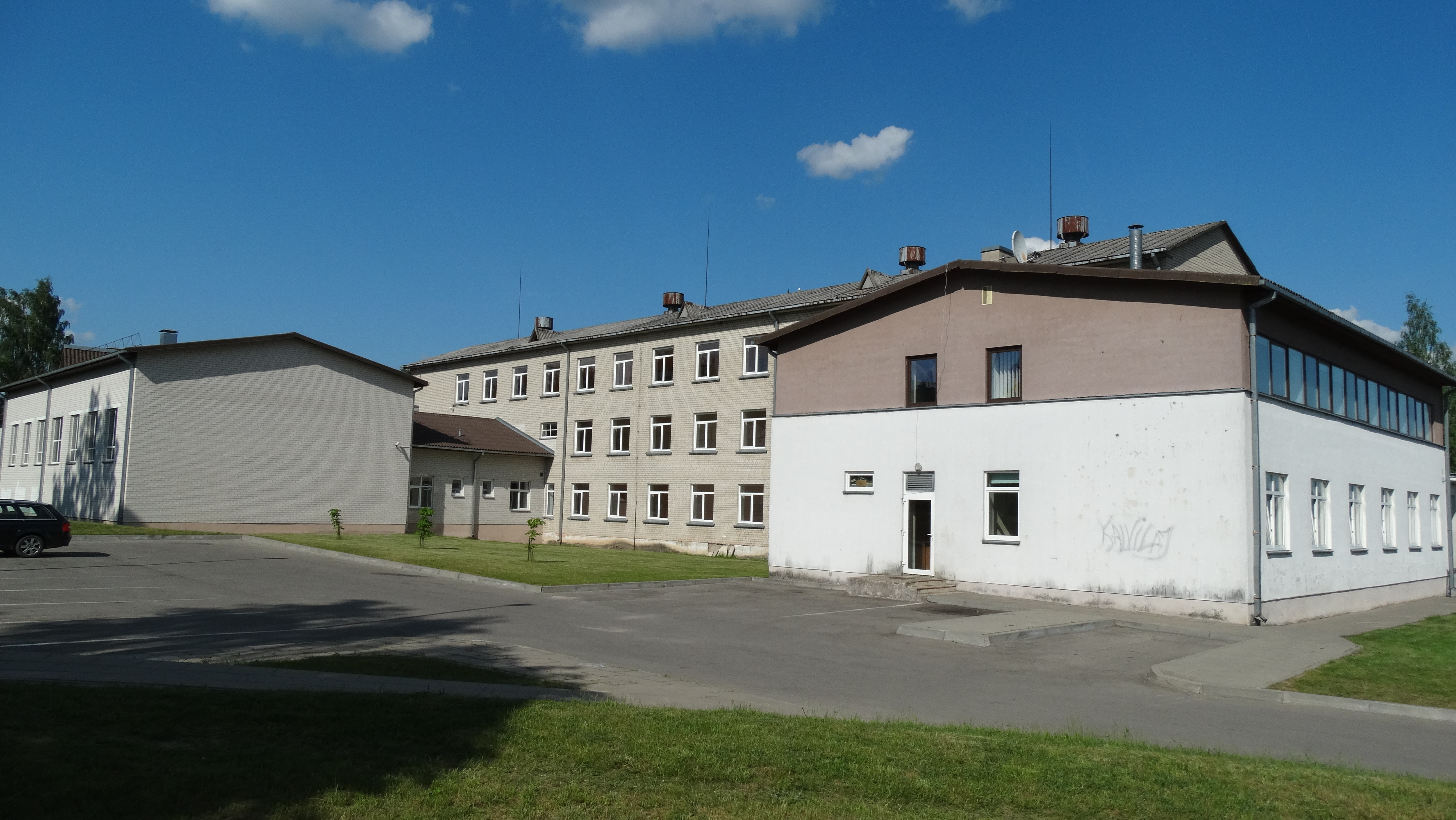 Stanisław Moniuszko Gymnasium, Kalveliai, Vilnius District, Lithuania